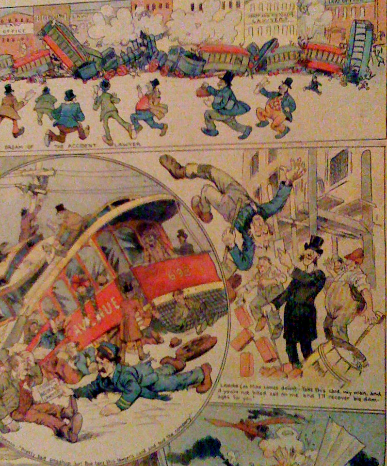 1900 comic makes fun of accident lawyers. Top-hatted lawyer to workman falling off scaffolding: "Take this card, my man, and if you're not killed call on me and I'll recover big damages for you." Motorman to trolley accident victim: "Pretty bad smashup. But take this lawyer's card and sue the company."